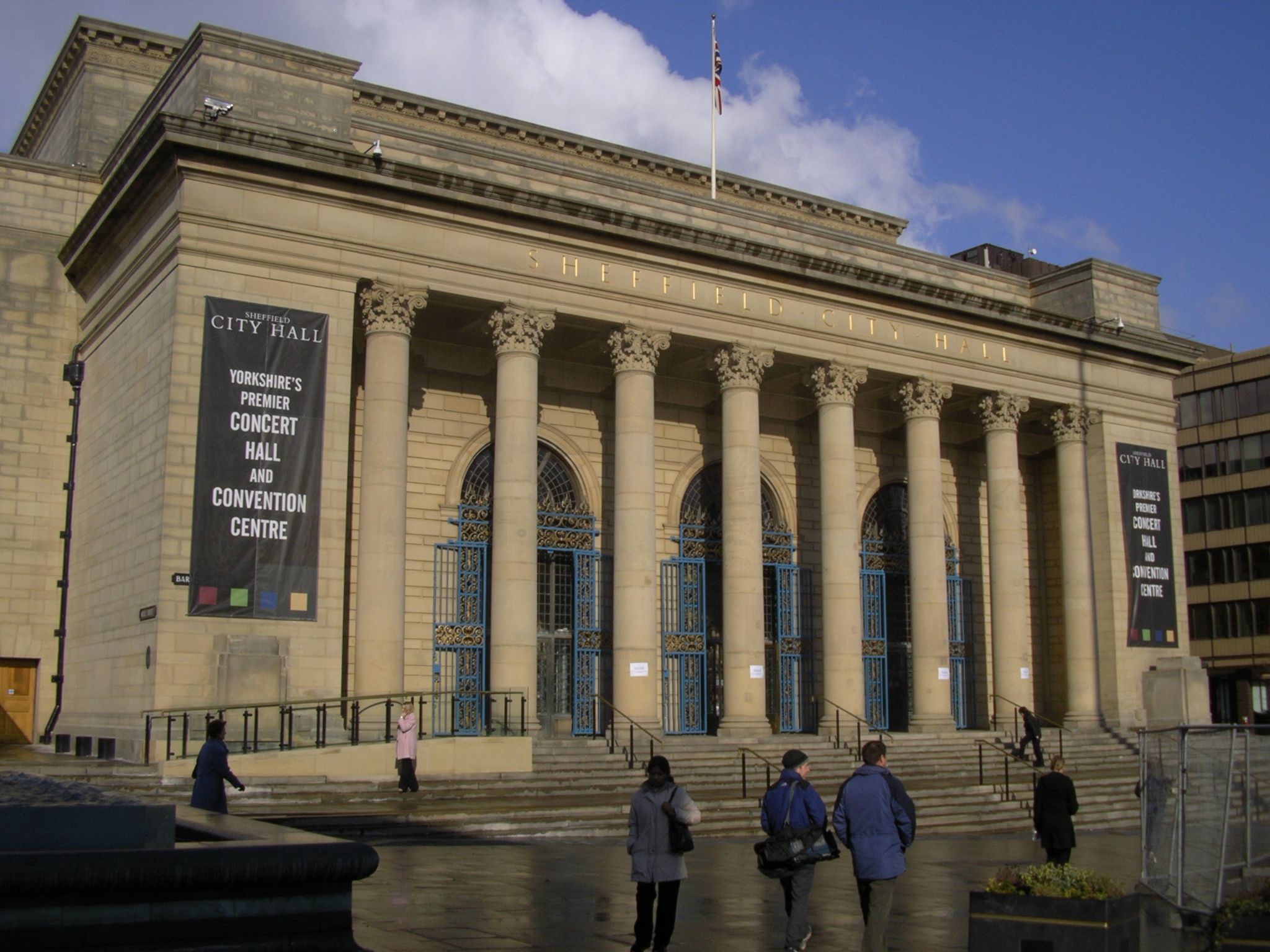 Sheffield City Hall from Barkers Pool.